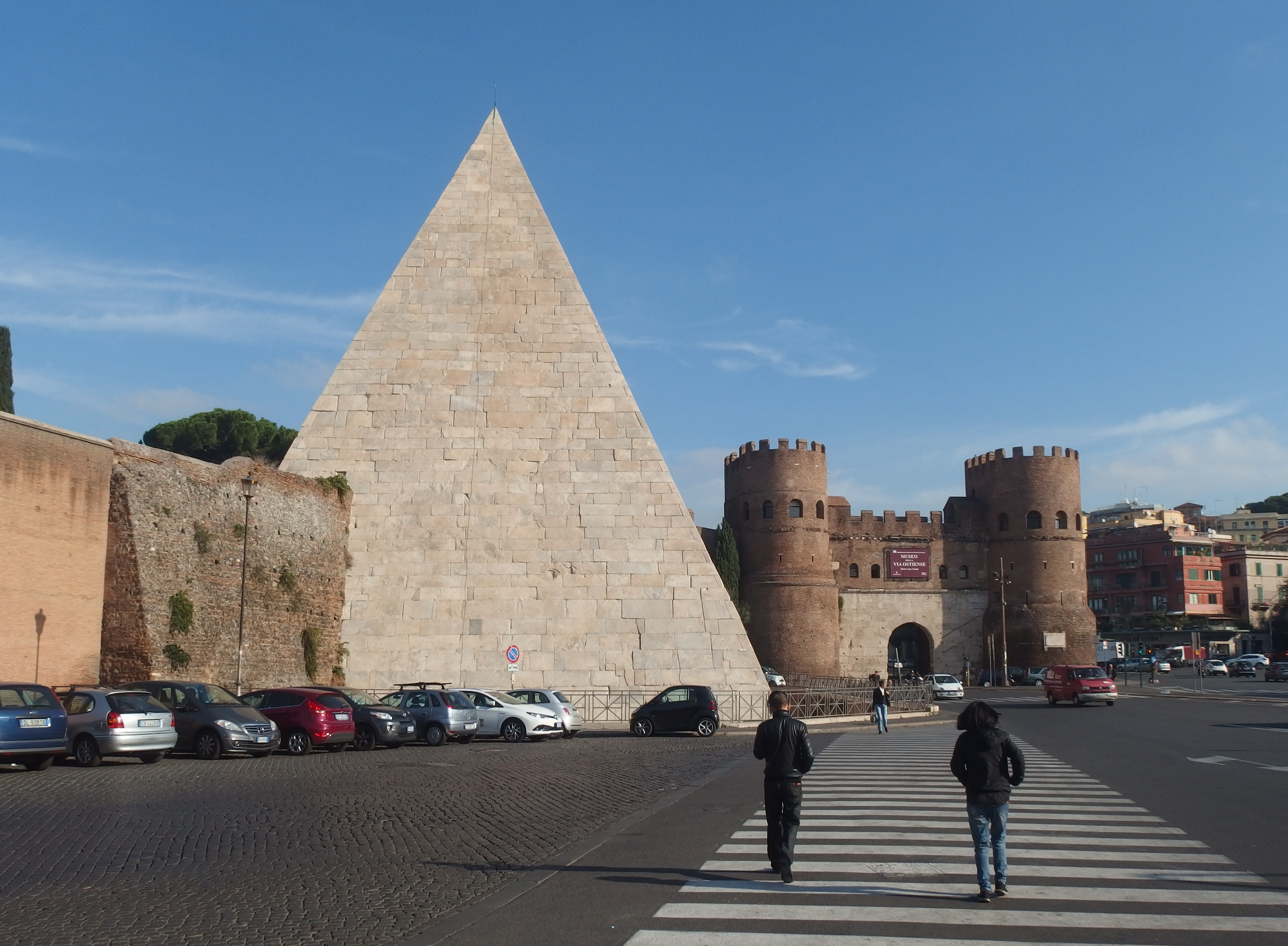 Rome, Italy.